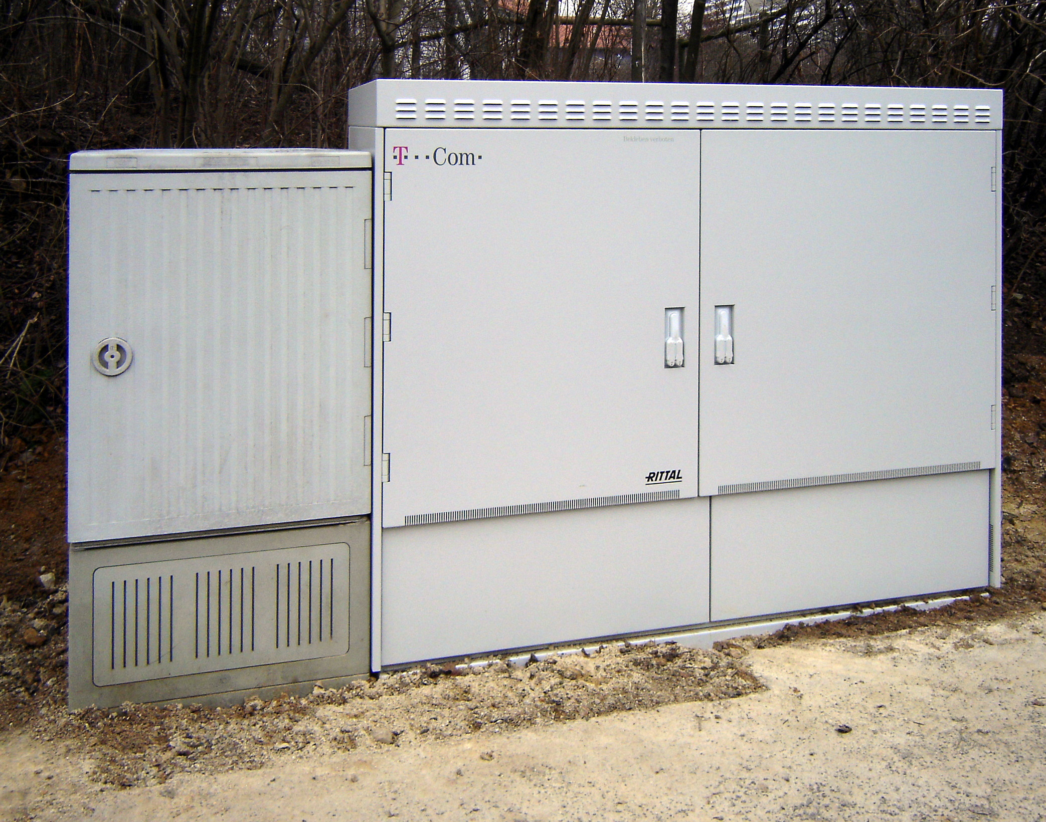 junction box of a cable TV network (left) and of the Deutsche Telekom's fibre glass network (right)